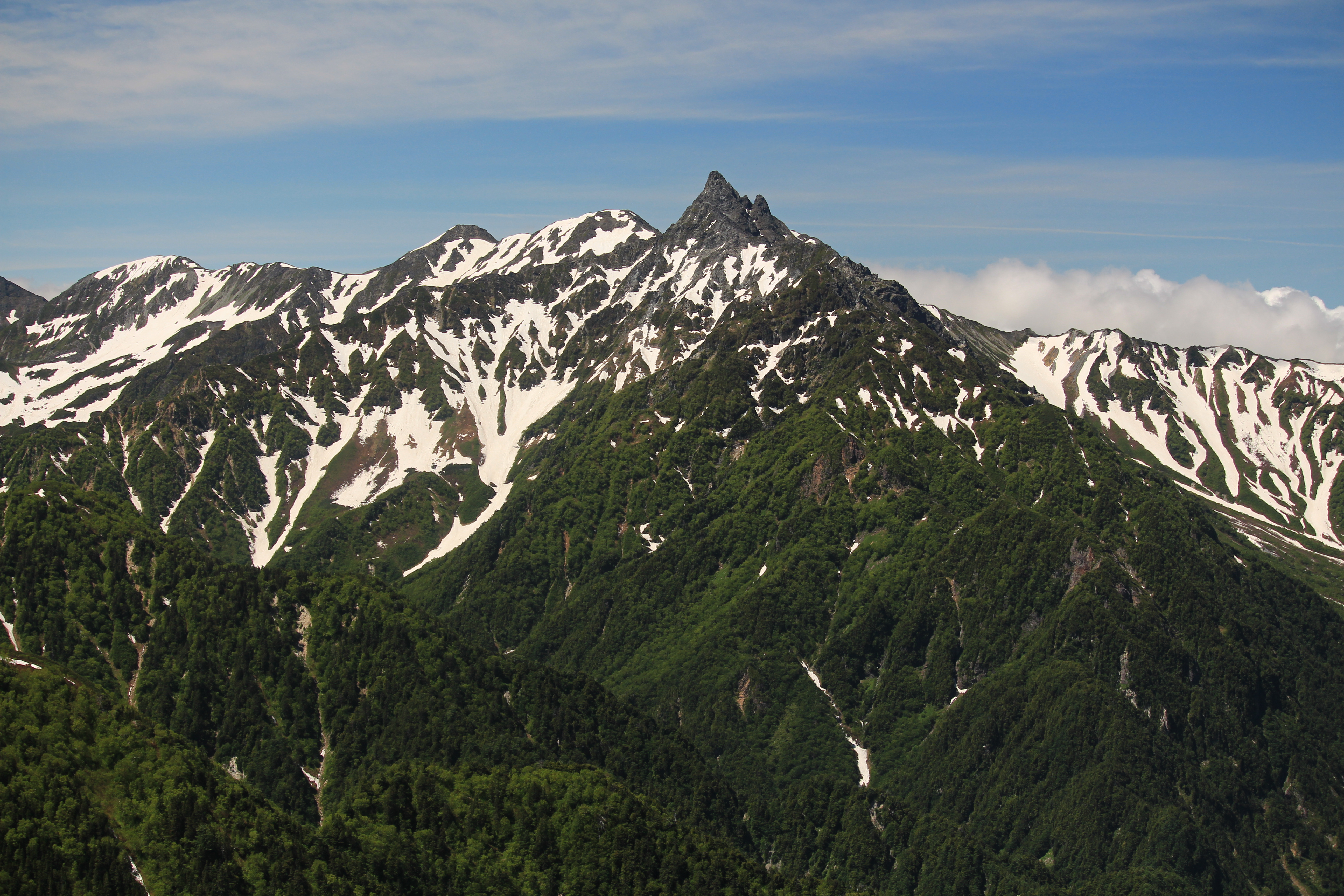 Mount Yari seen from Mount Tsubakuro in Hida Mountains, Japan.